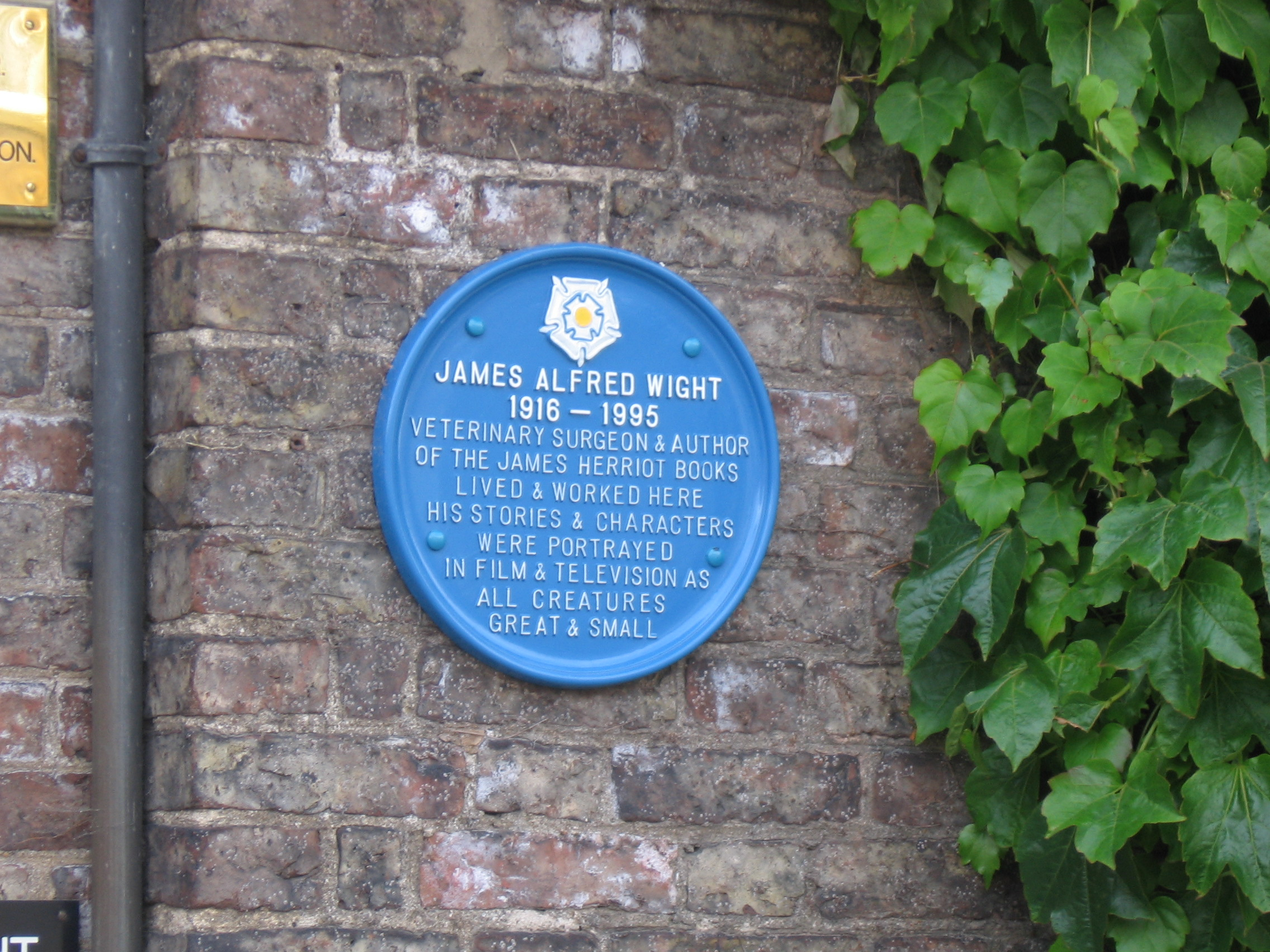 A blue plaque in Thirsk, Yorkshire.